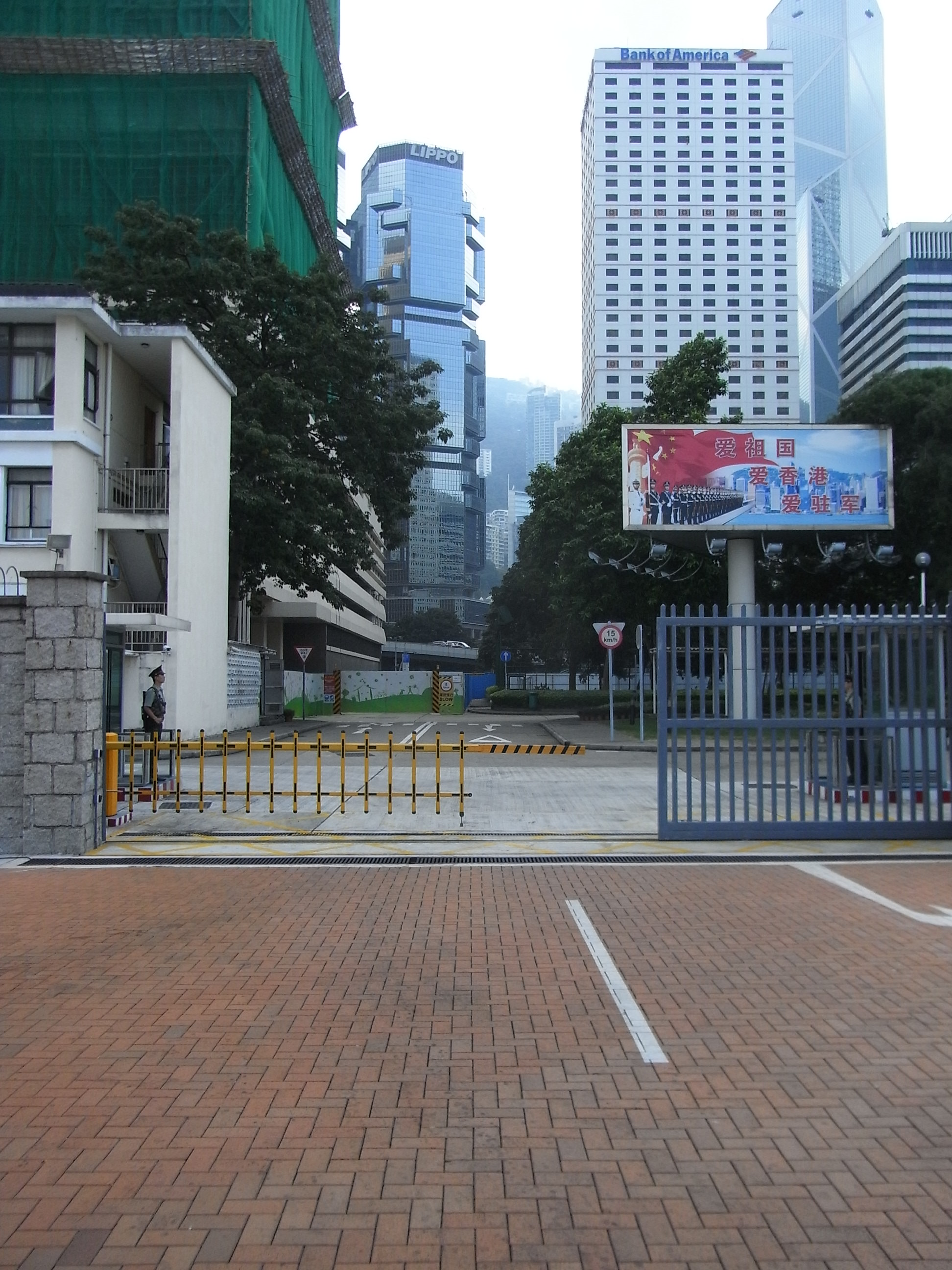 Lung Wo Road, Admiralty, Central, Hong Kong